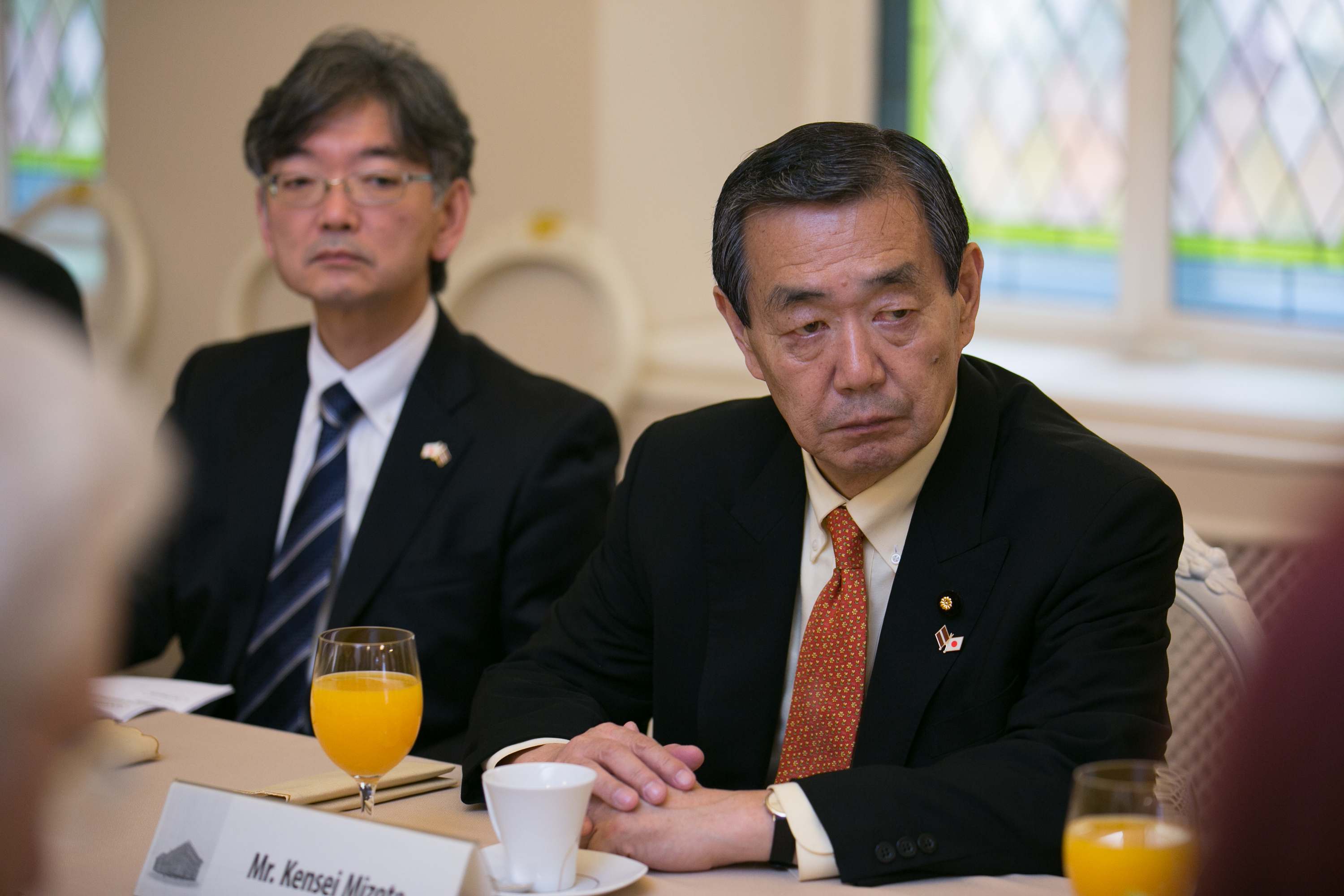 Kensei Mizote, Member of the House of Councillors, and Masaaki Yamazaki, President of the House of Councillors, met Solvita Āboltiņa, Speaker of the Saeima, in Latvia on July 16, 2014.